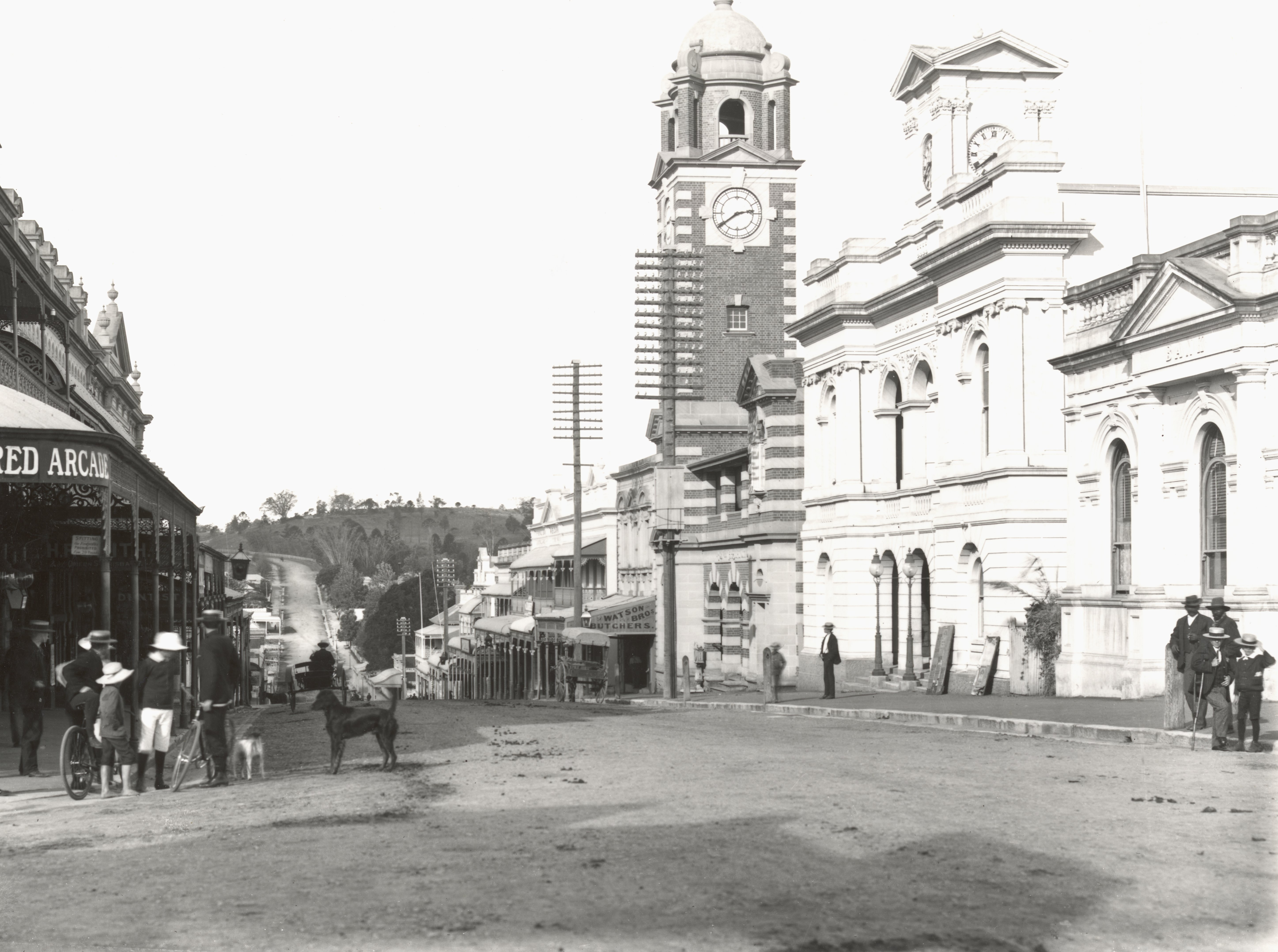 Brisbane Street Ipswich, looking towards Limestone Hill. Ipswich became a city in 1904. It was going through a period of growth with coal mines, railway workshops, foundries, the woollen mill, sawmills and light industries like Roberts’ Carriage Works. The quiet street belies the importance of Ipswich. The photo may have been taken on a Saturday or Sunday afternoon with all the children in the street. The clock tower belongs to the Ipswich Post Office (architect: Thomas Pye); the building to it right, also topped by a small clock tower, is the Old Town Hall. Queensland Museum holds over 1000 of Bert Roberts' plate glass negatives and prints from the era.